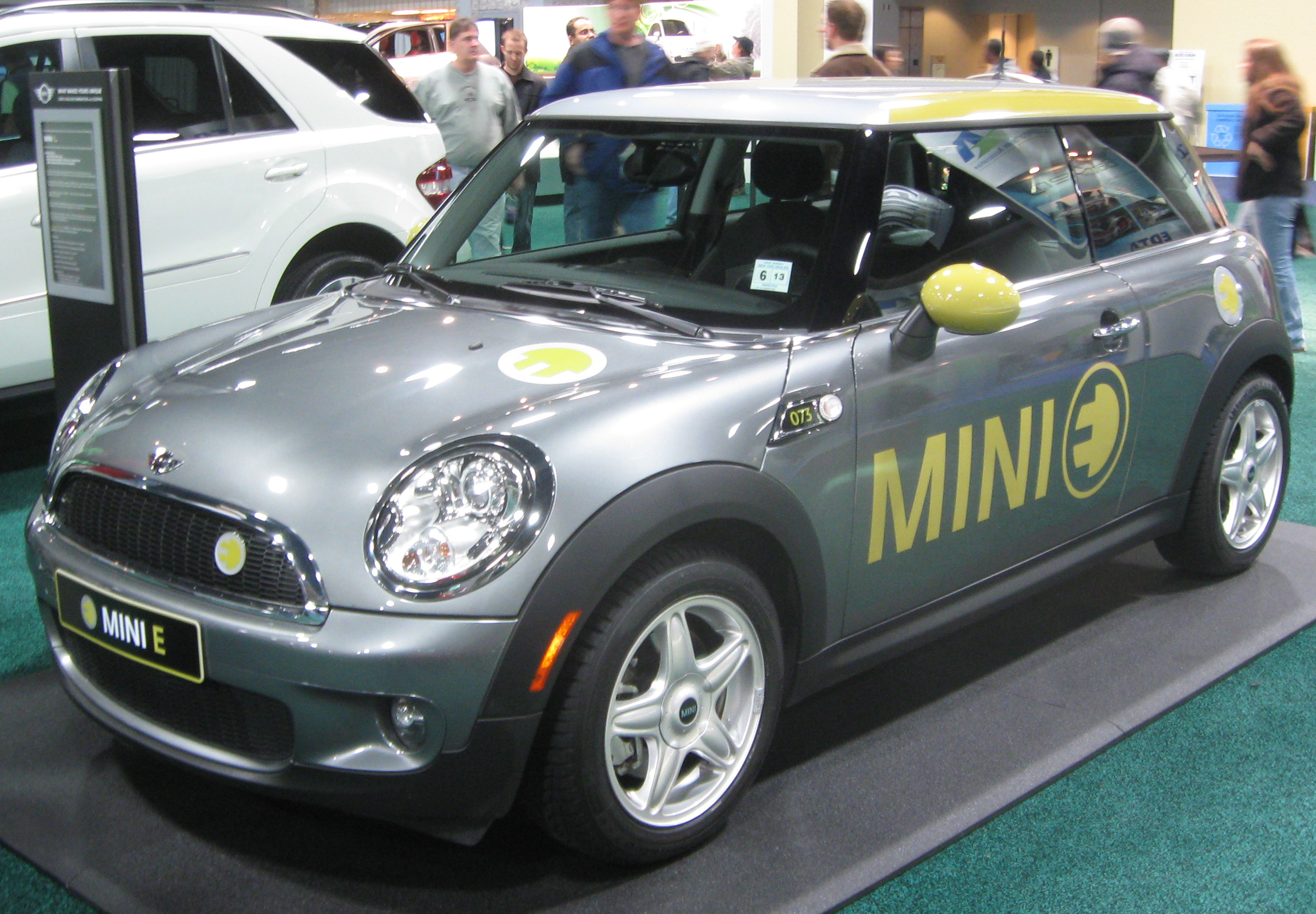 Mini E photographed at the 2010 Washington Auto Show.